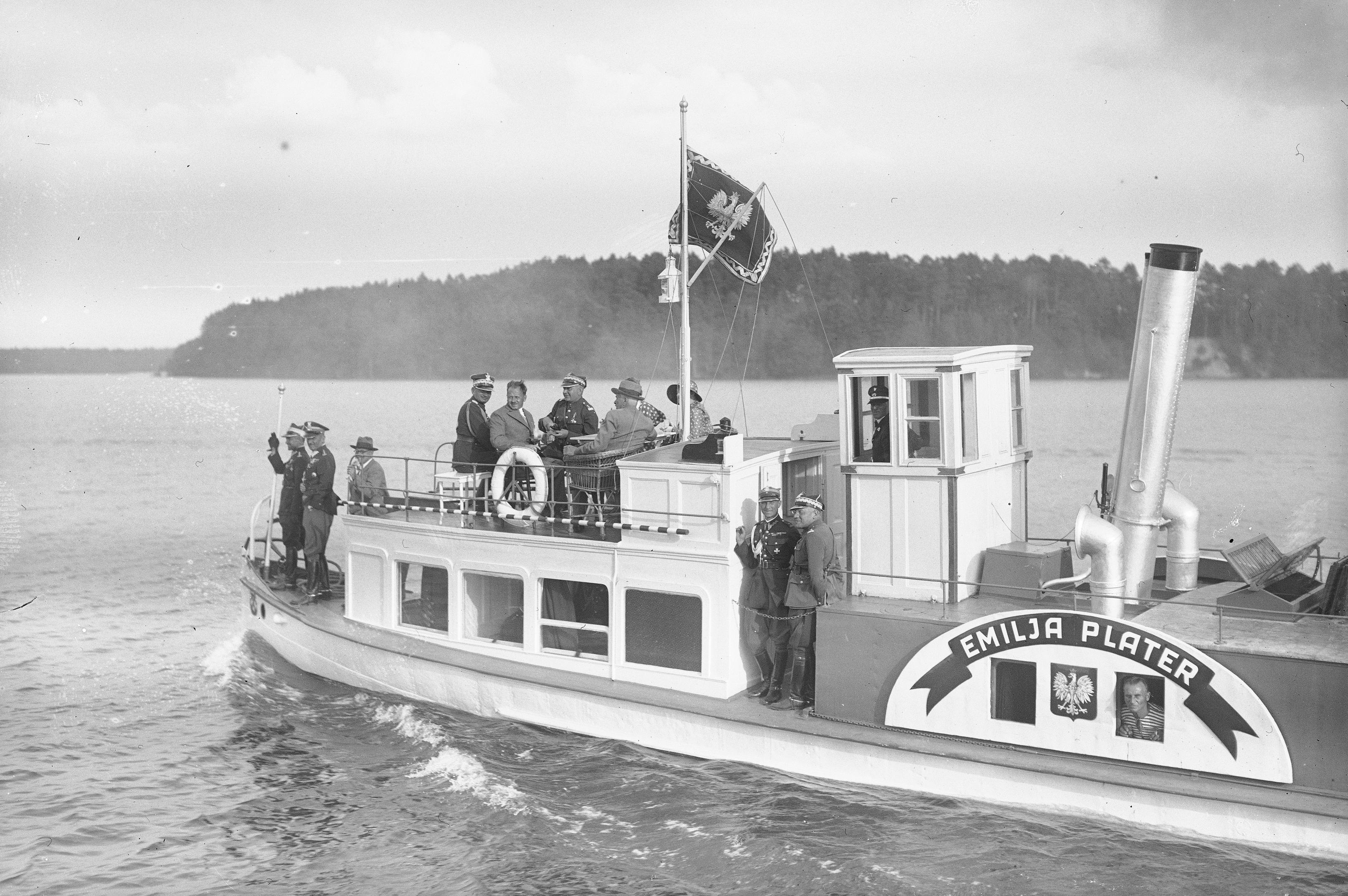 Polish president (1926-1939) Ignacy Mościcki during a cruise on a ship in Augustów.